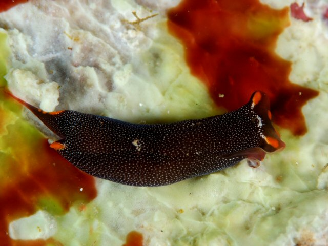 Chelidonura fulvipunctata. Depth: 10 m.